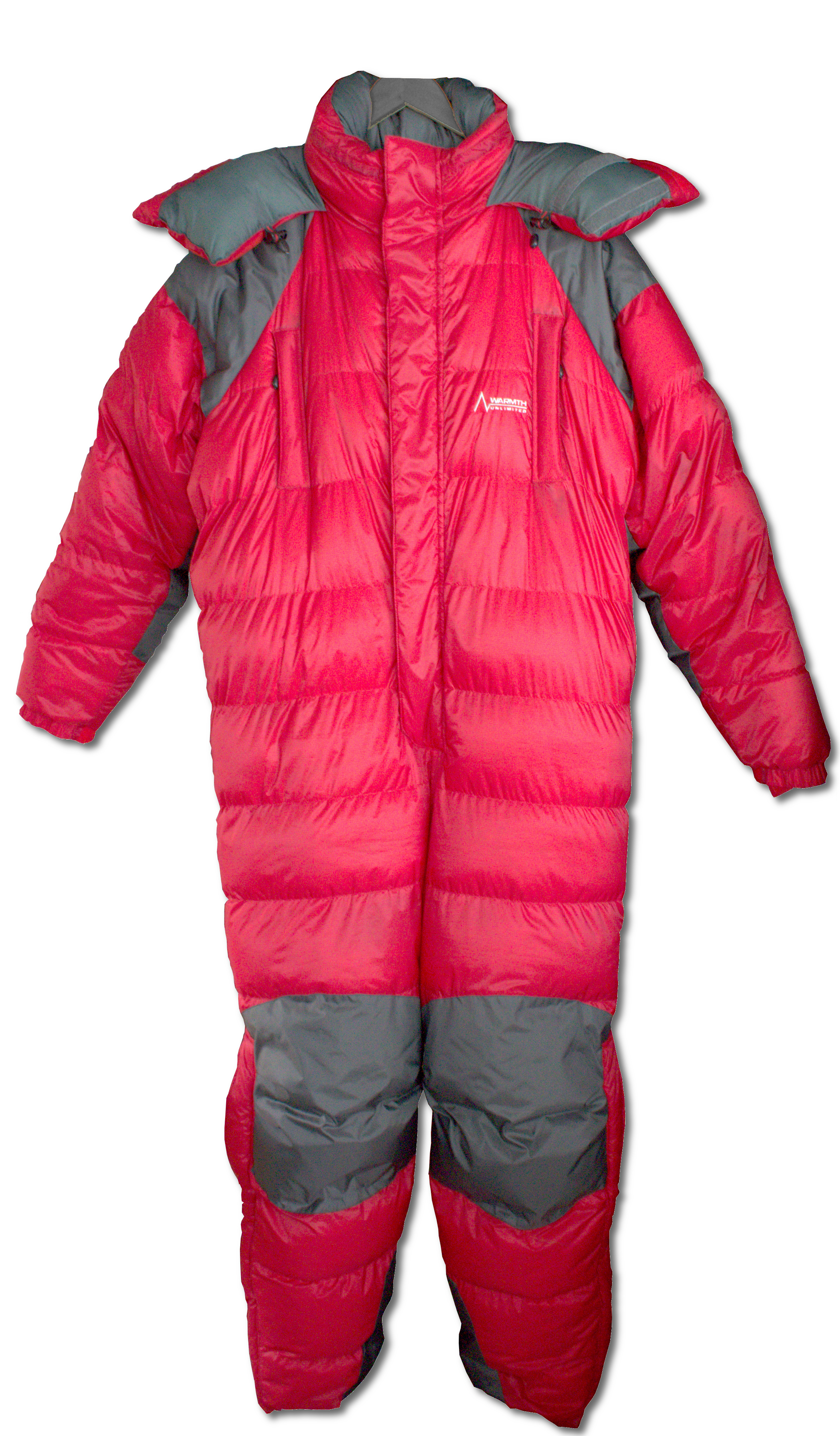 Lightweight one-piece down suit made by Yeti Poland. Use cases: High-altitude climbing, outdoor activities in freezy climates.